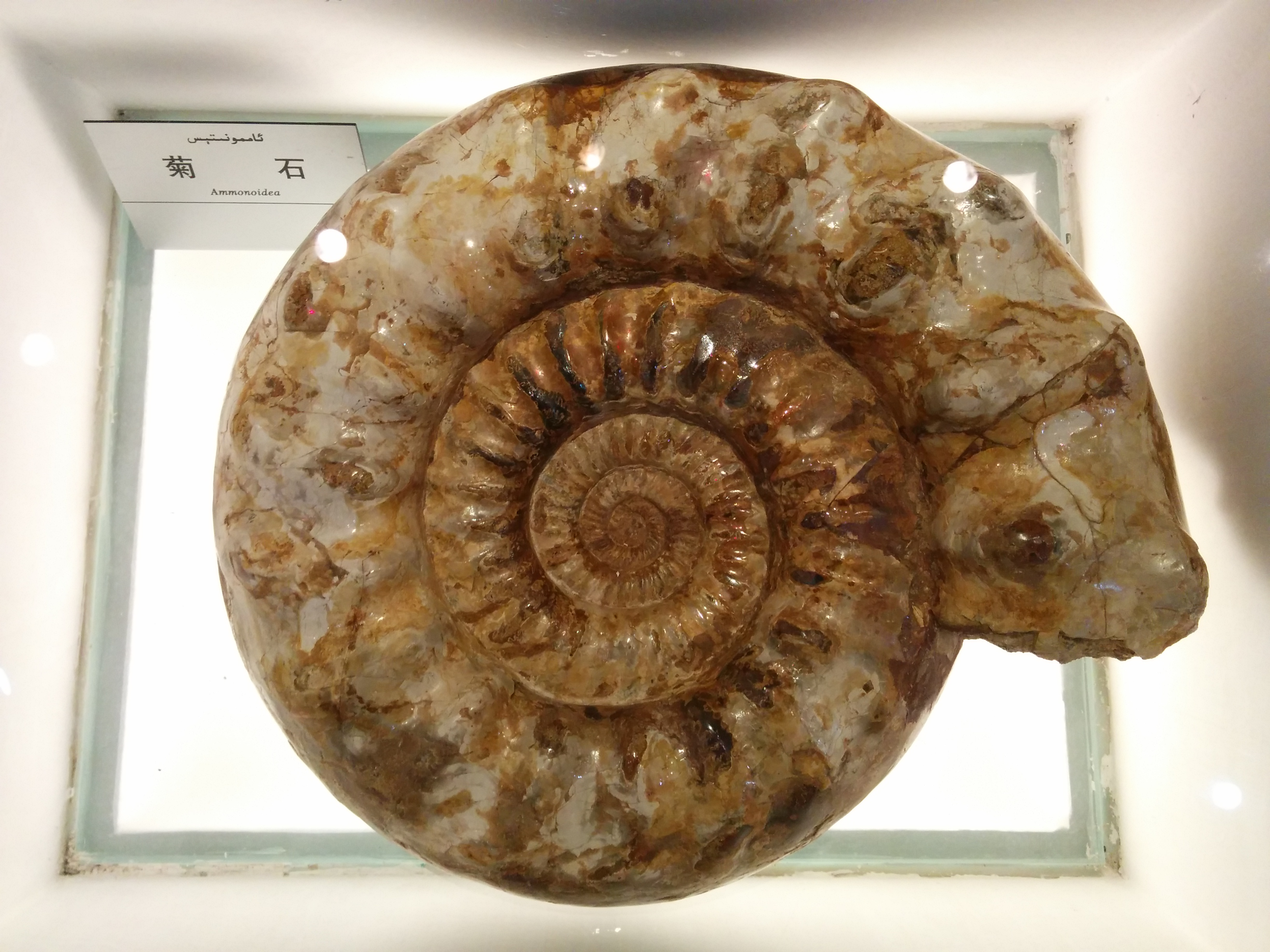 The ammonite specimen in Xinjiang Geological and Mineral Museum